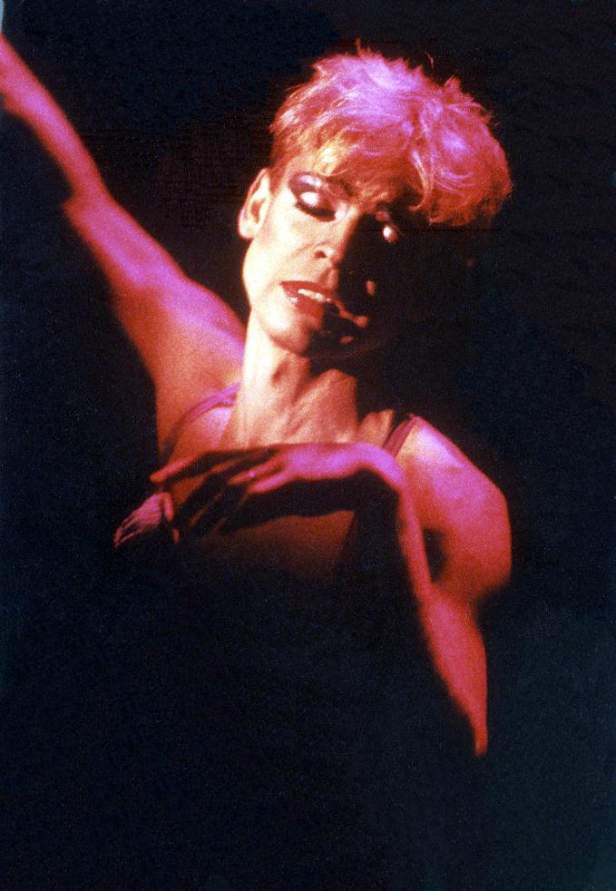 Roger Jönsson on stage, as released by image creator Lars Jacob ProdPlace: Stockholm, Sweden